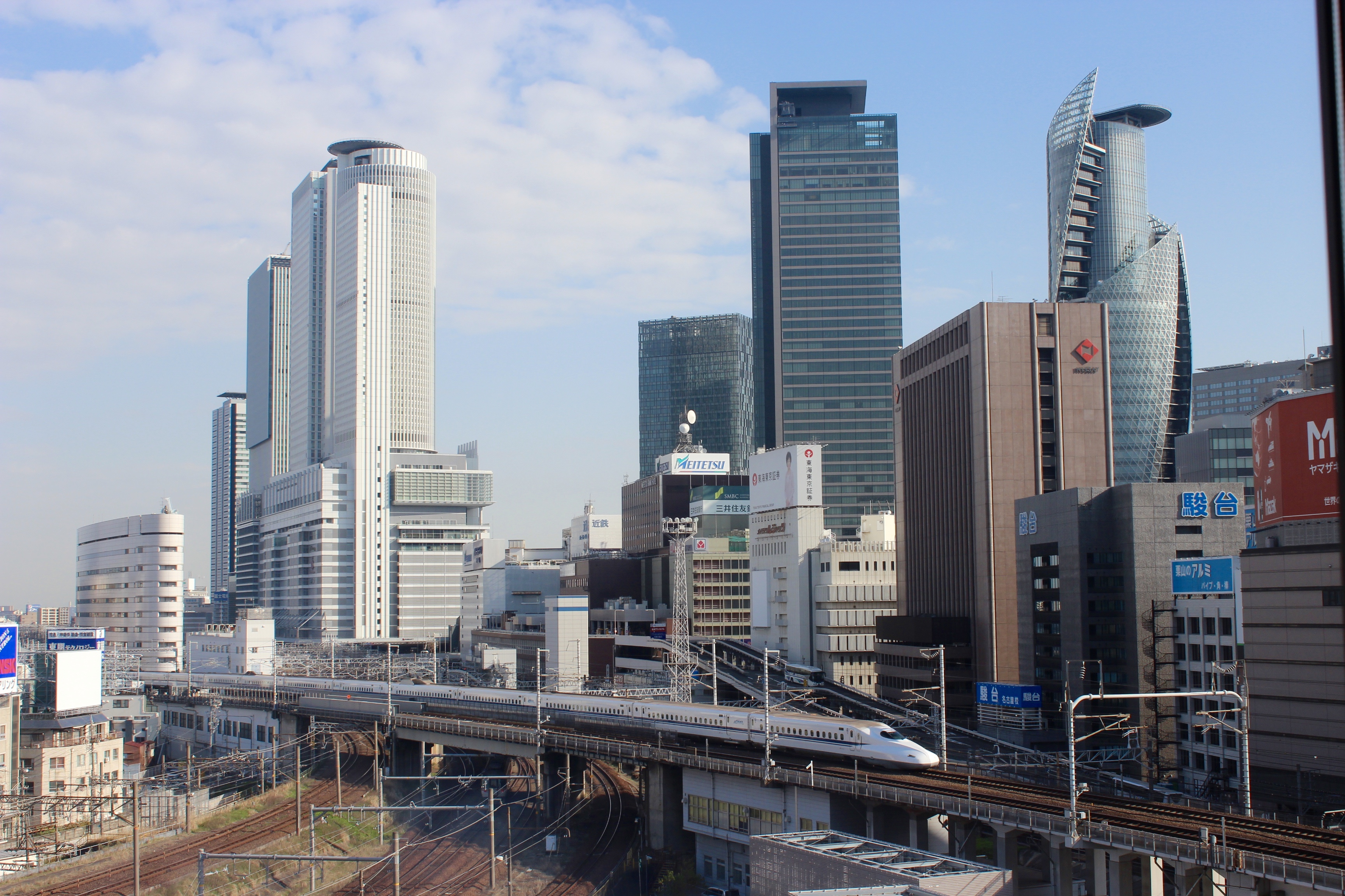 The Tokaido Shinkansen in front of Nagoya Skyline.